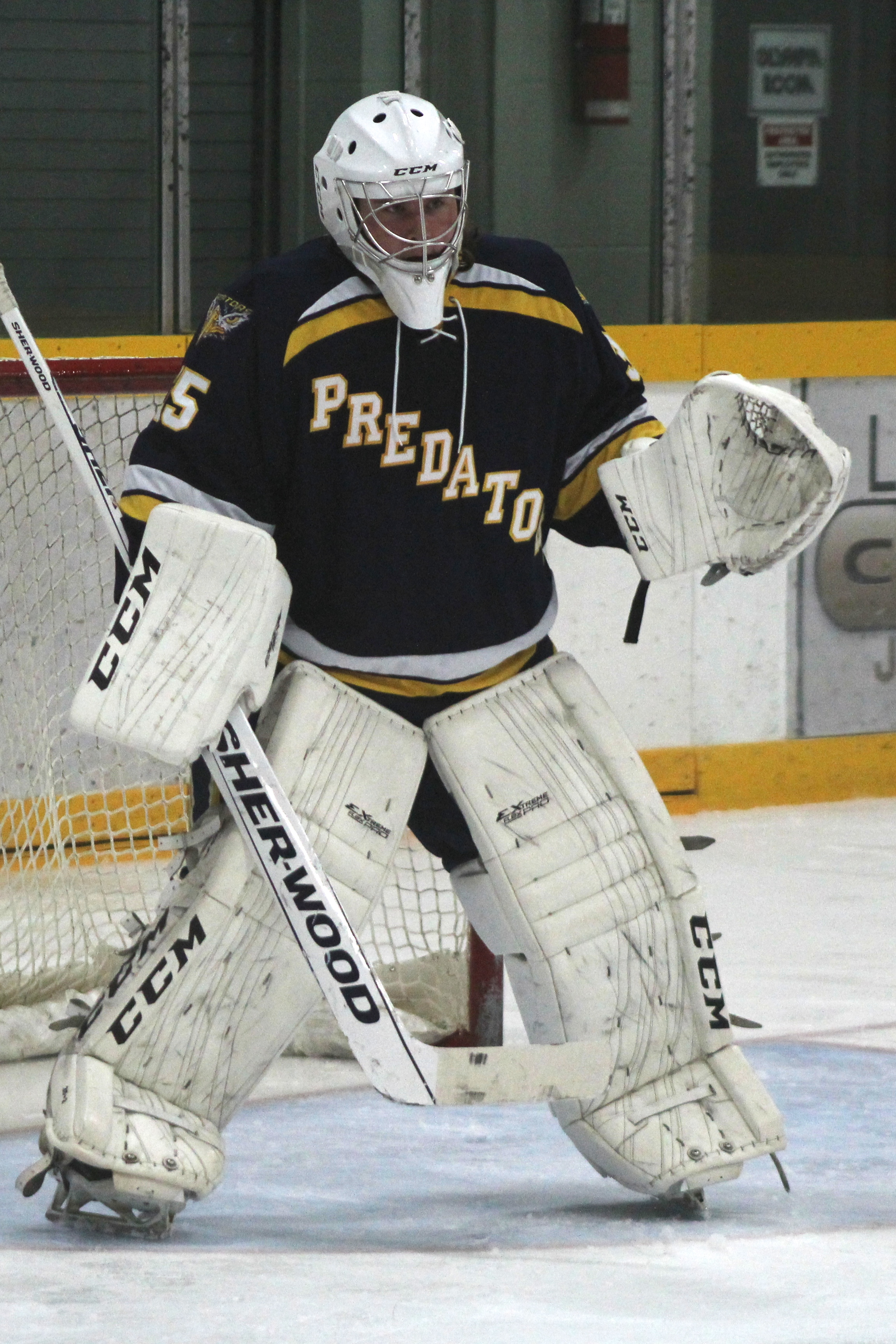 These images of GMHL Action action during the 2015-16 season are taken by Devan Mighton.